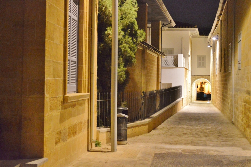 Nicosia Barnabas alley street by night Nicosia Republic of Cyprus